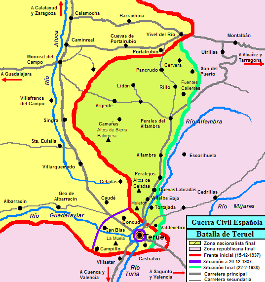 Map of the Battle of Teruel in Spanish Civil War